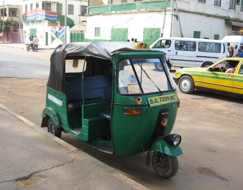 Tuk-Tuk on the streets of Banjul, The Gambia, West Africa